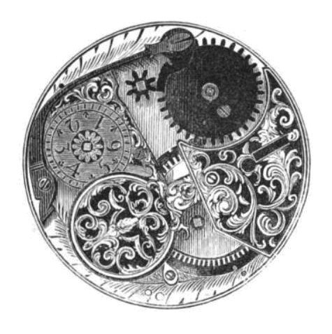 Drawing of the movement of an antique pocketwatch from the 16th century. The view is of the back of the watch movement with the cover open. This watch incorporates a stackfreed, a rare mechanism that was used in the 15th and 16th century to even out the force of the mainspring, to improve accuracy. The stackfreed is the black cam (top) with a stiff curving spring with a roller pressing against it (top right). The stackfreed is turned by a pinion gear on the mainspring shaft (right of cam) projecting through the back plate of the watch. The declining retarding force of the spring on the cam as it turned allowed more of the mainspring's force through, compensating for the declining force of the mainspring as it unwound. The watch is wound up by inserting a key on the squared-off shaft of the pinion gear and turning. The numbered wheel (right) adjusted the rate of the watch by adjusting the force of the mainspring. A key was inserted on the squared-off shaft and turned.